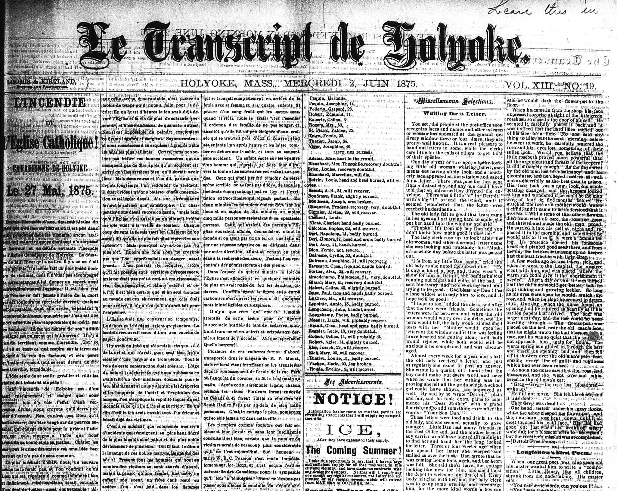 The sole issue when The Holyoke Transcript was published under the masthead, "Le Transcript de Holyoke", following the Precious Blood Church fire in 1875.